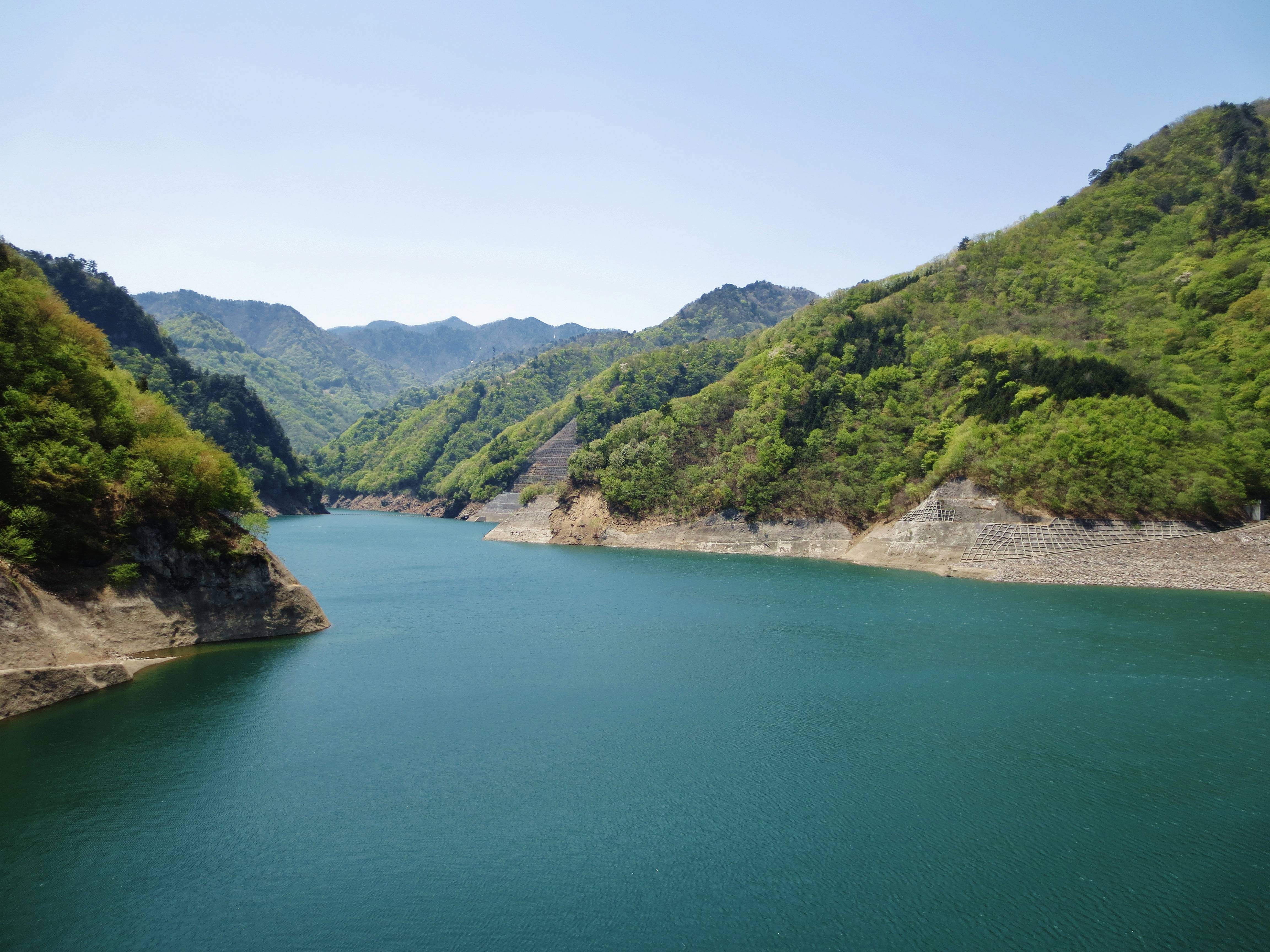 Ueno Dam.